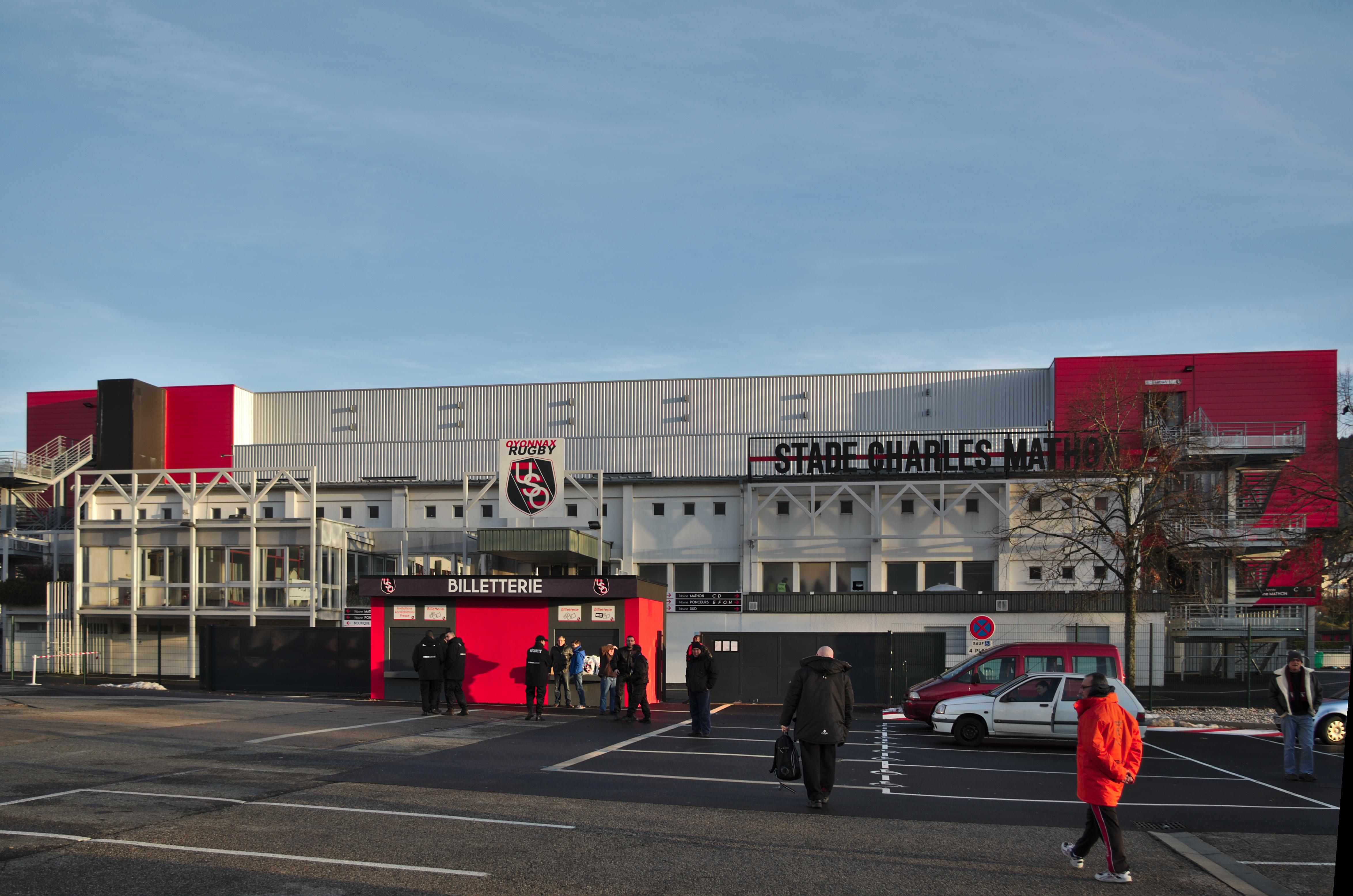 USO-AB - 20131221 - Stade Charles-Mathon